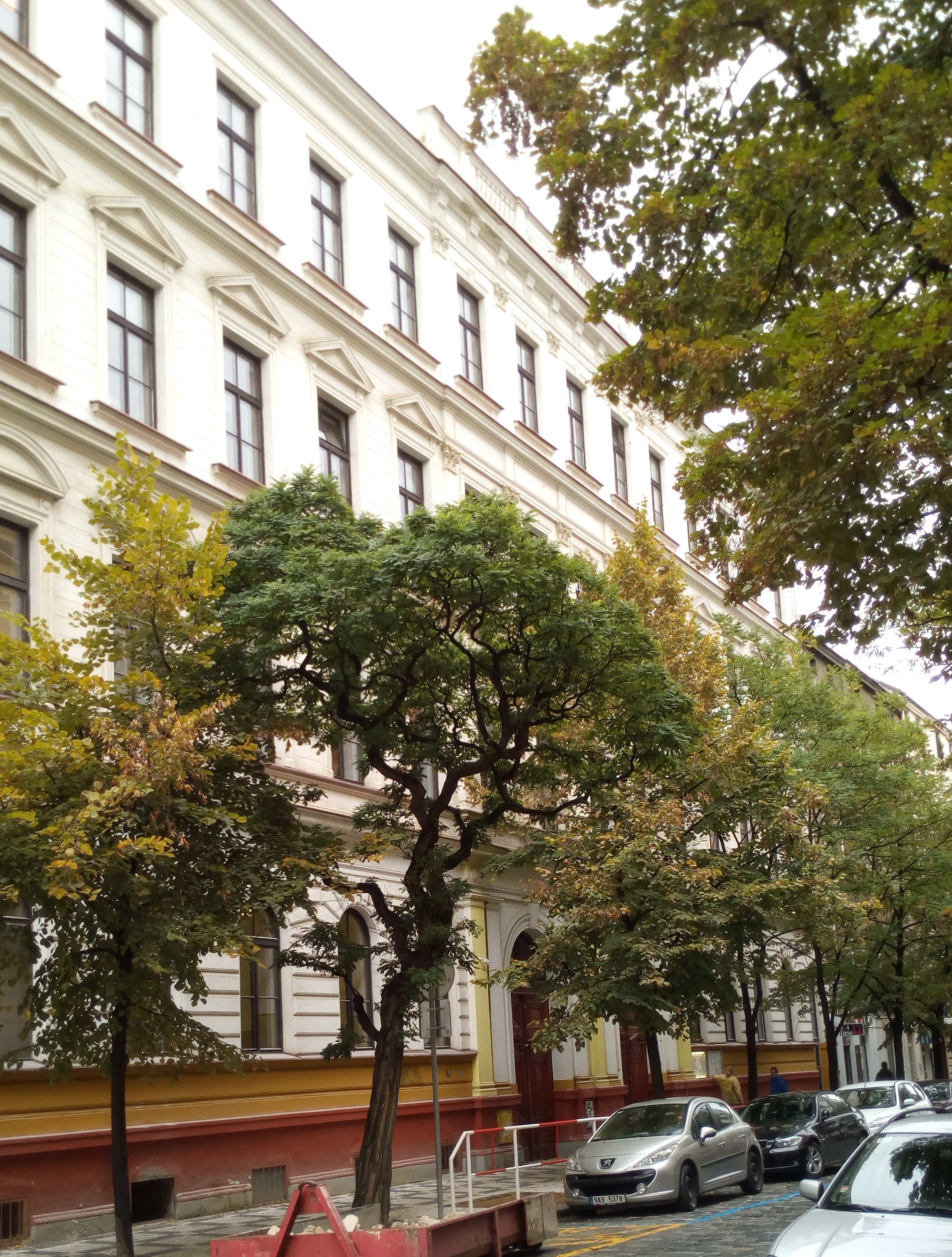 The building of "Střední škola obchodní" (High School of Commerce) in Prague, Belgicka street.